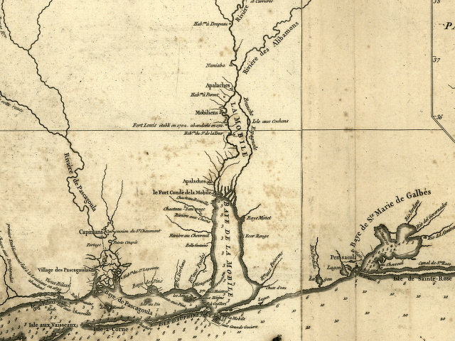 A detail of Anville's 1732 map of Louisiana showing Mobile Bay, the Mobile colony, and surrounding Native American settlements and villages.